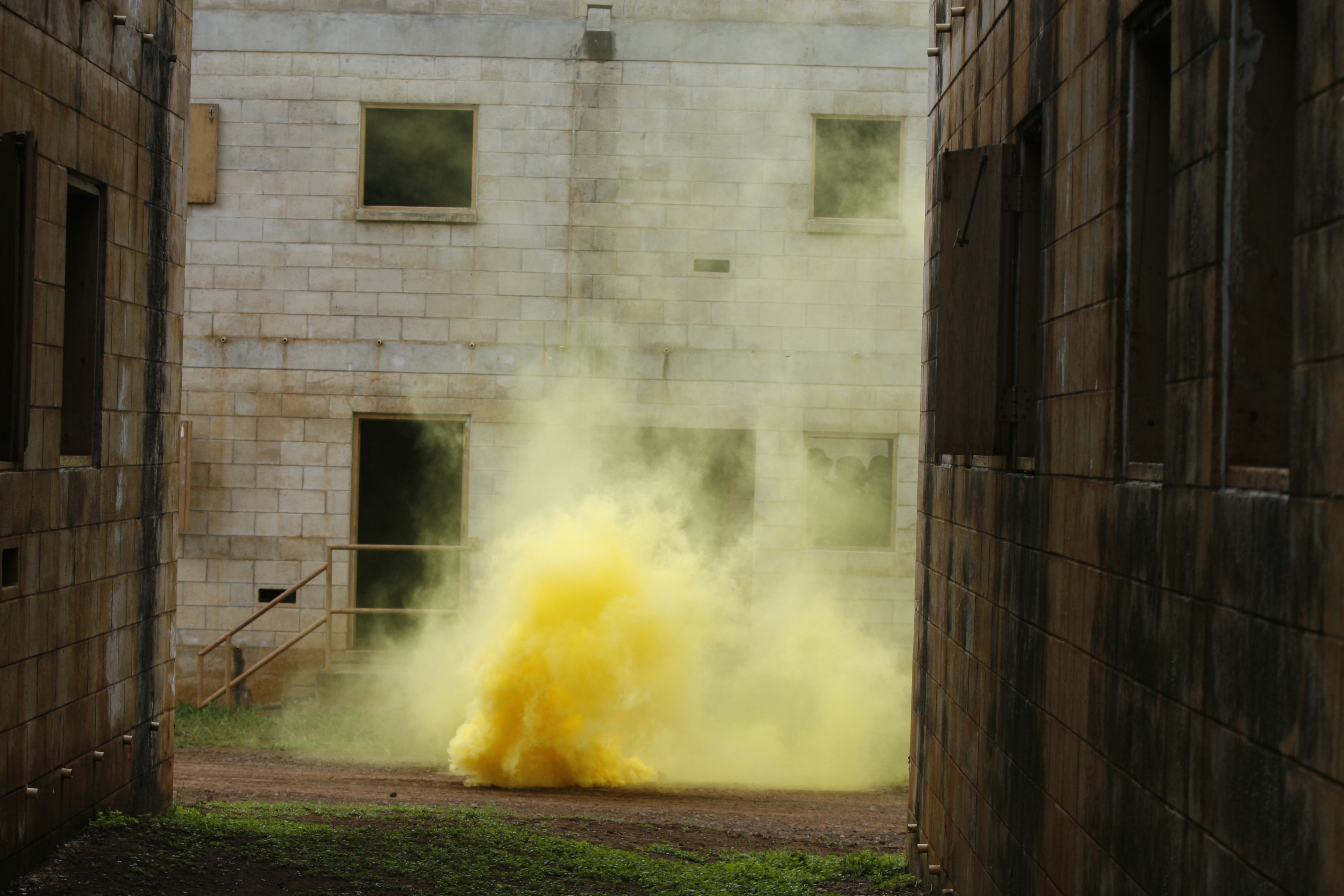 An M18 smoke hand grenade is activated by U.S. Marines from Lima Company, 3rd Battalion, 3rd Marine Regiment at the U.S. Army's Schofield Barracks' military operations on urban terrain facility, Oahu, Hawaii, May 17. The Marines train in preparation for an upcoming deployment in support of Operation Enduring Freedom.